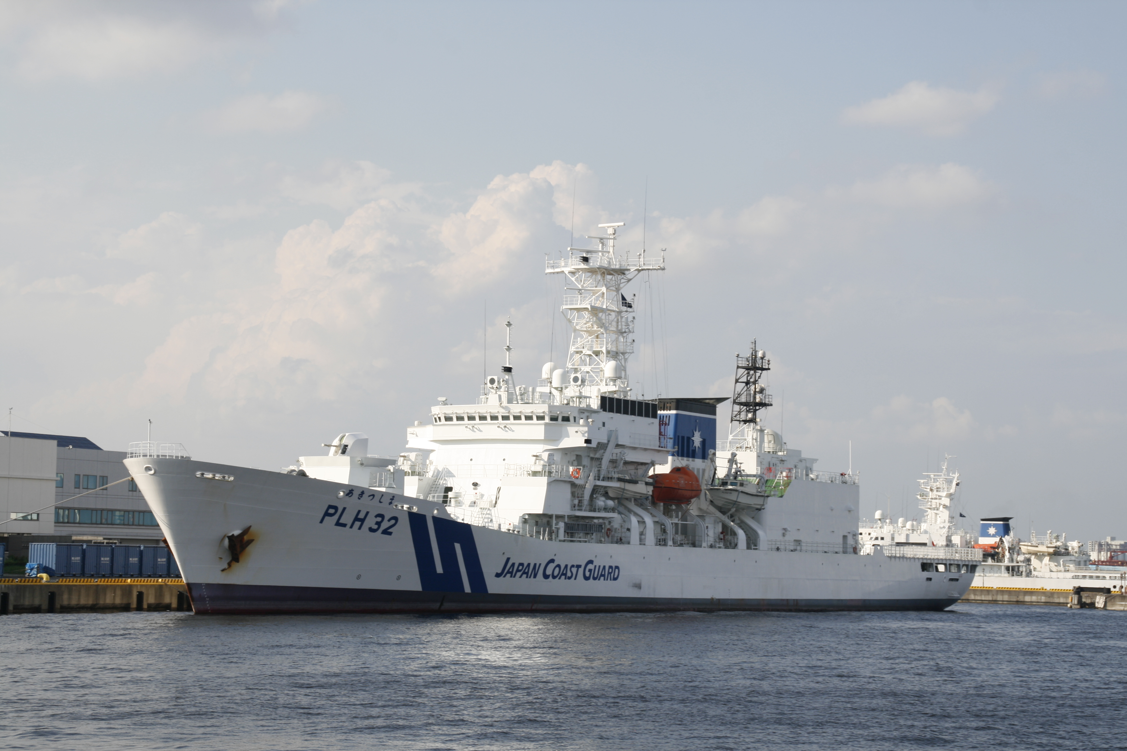 Japan Coast Guard patrol vessel PLH32 Akitsushima